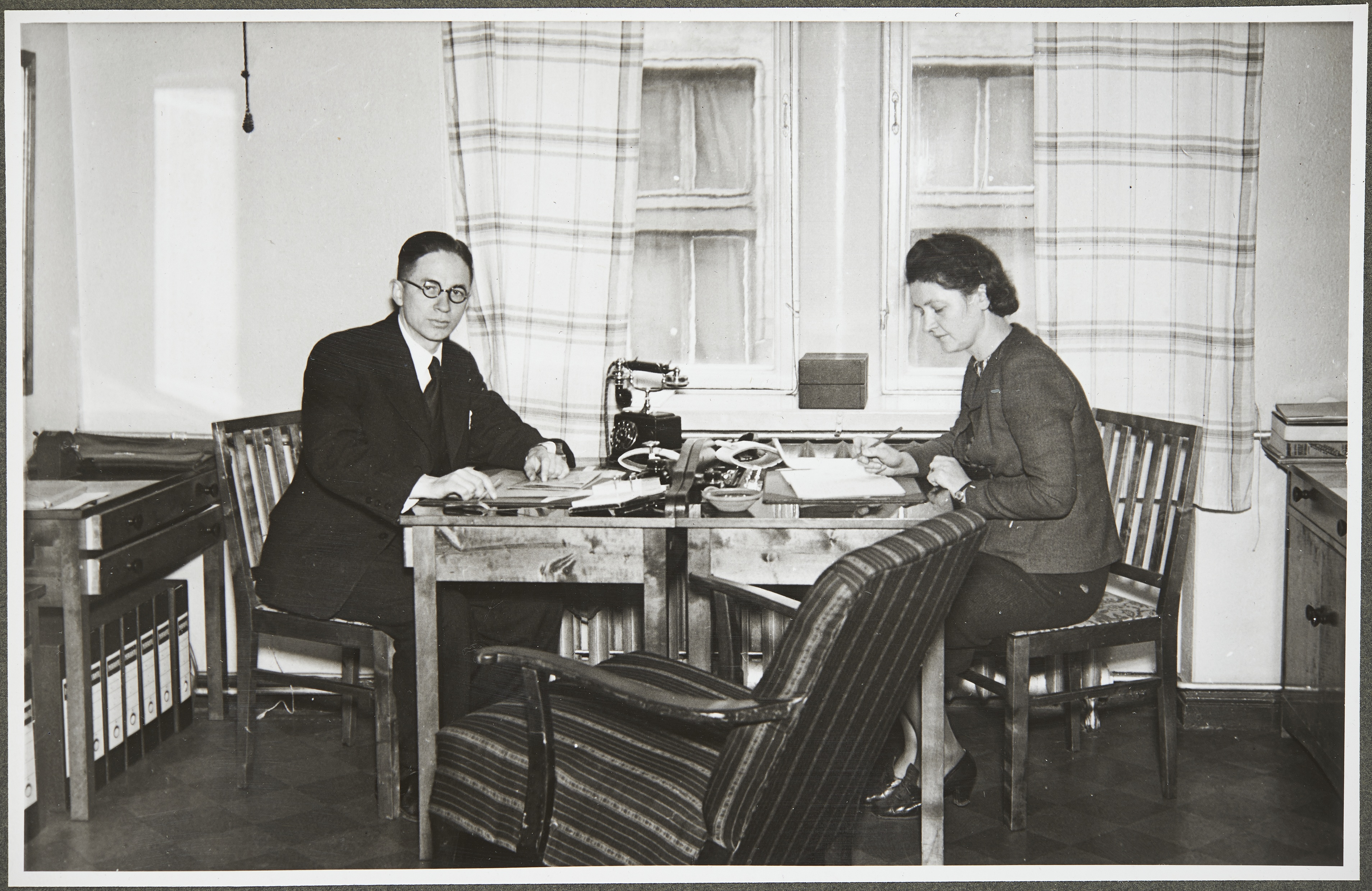 Photograph of the Finnish economist Severi Saarinen (1905–1983) at work with a secretary at the Government Infomation Office (Valtion tiedoituslaitos) during World War II.